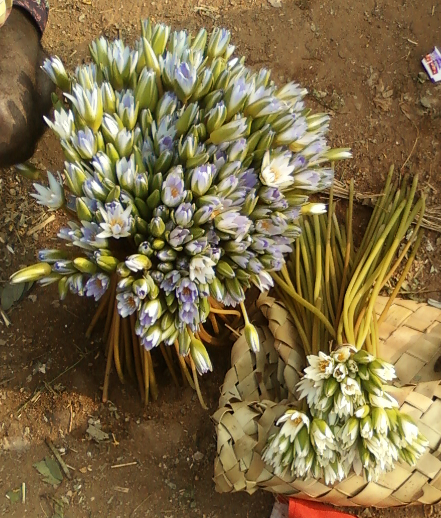 (Nymphaea nouchali) lotus flowers bunch at a market in Anandapuram, Visakhapatnam district